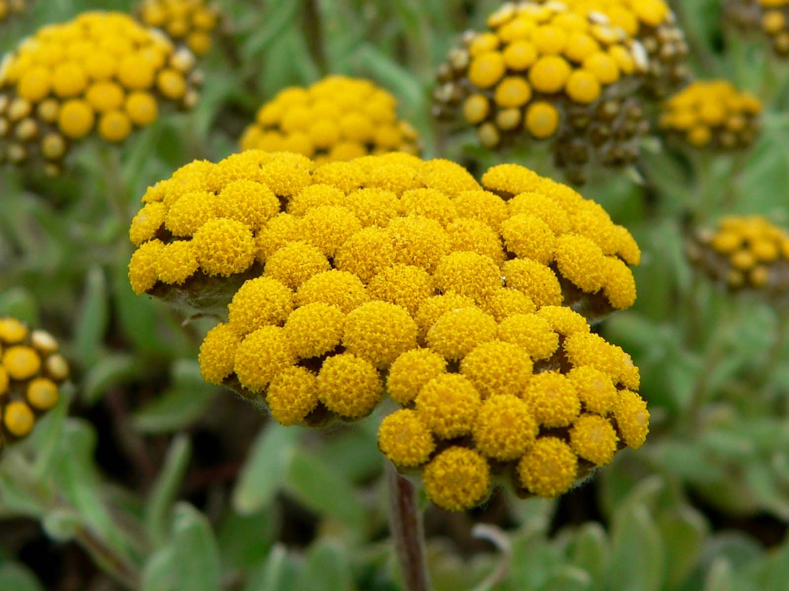 Photo of Helichrysum basalticum at the UBC Botanical Garden